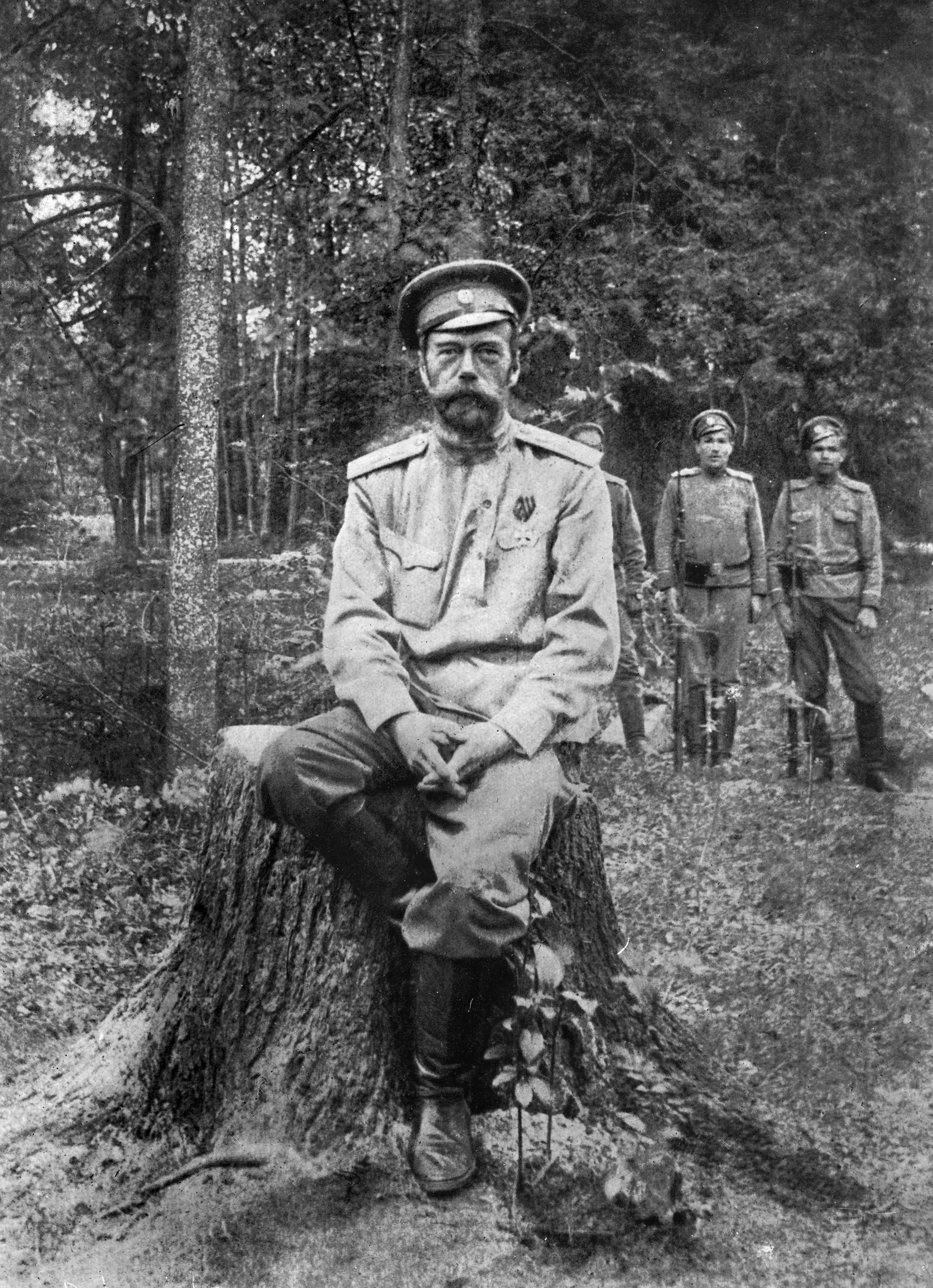 A photograph of Czar Nicholas II taken after his abdication in March 1917.